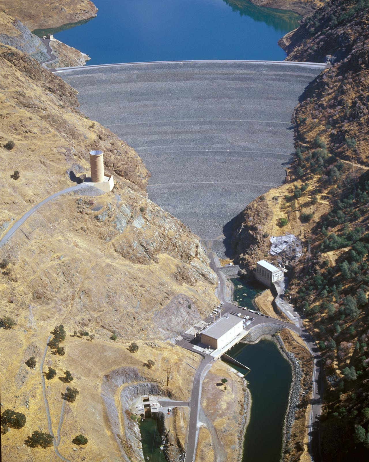 The New Melones Dam on the Stanislaus River in California.